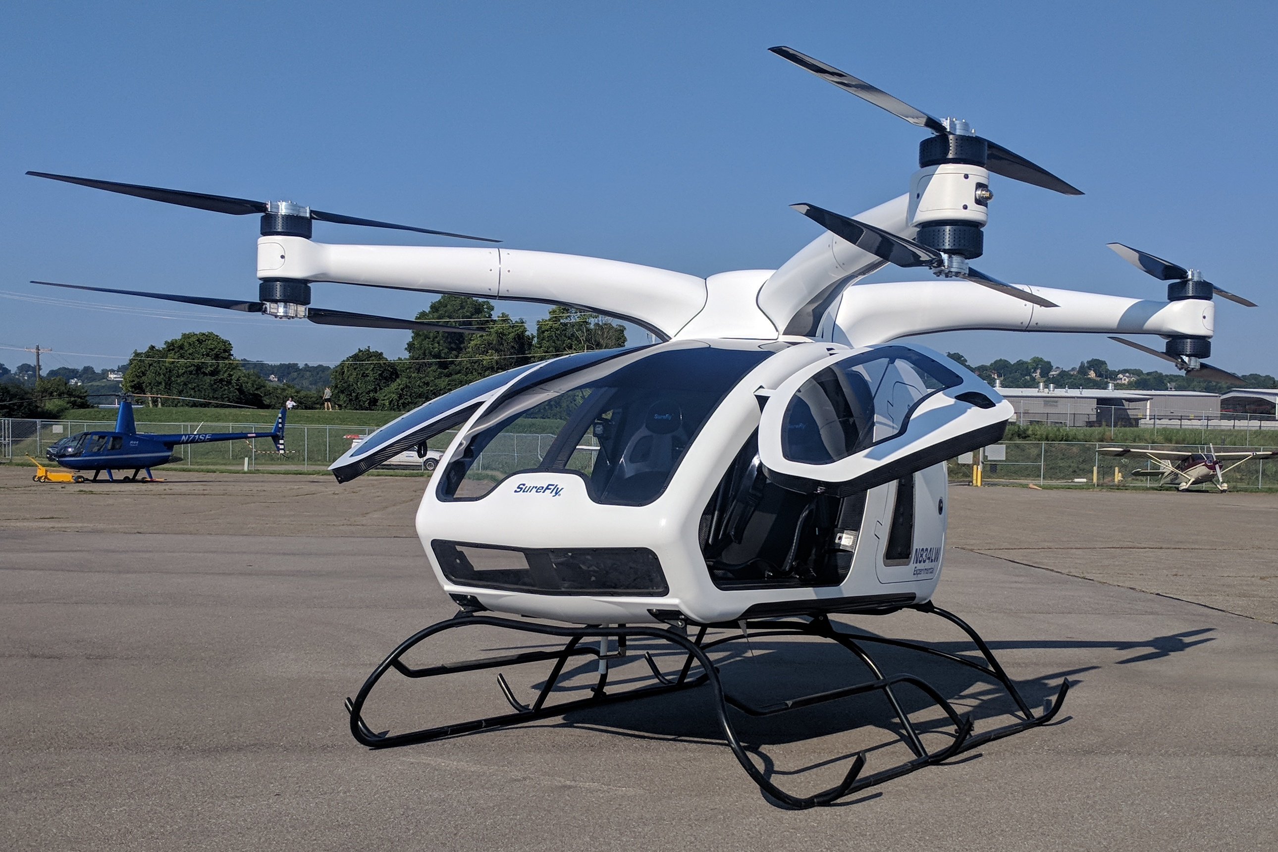 SureFly 250 craft with doors and access panels open.